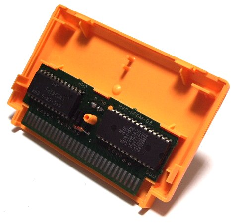 Famicom ROM cartridge.